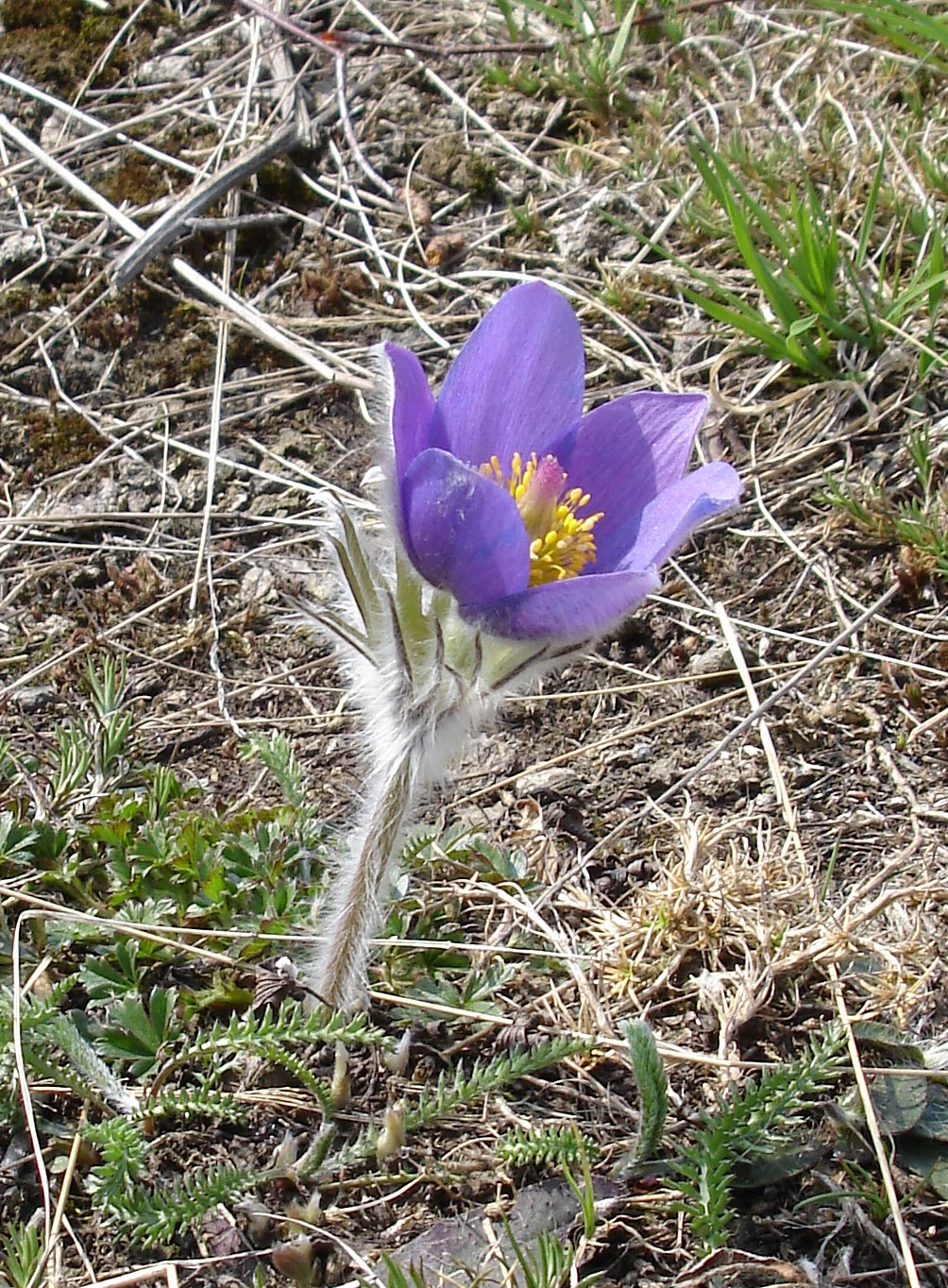 Pulsatilla patens at Holý vrch u Hlinné in České středohoří, Czech Republic